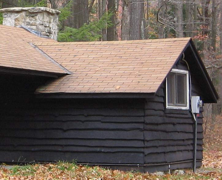 Crop showing detail of wane siding on CCC-built Cabin 1 at S.B. Elliott State Park in Pine Township, Clearfield County, Pennsylvania, USA is listed on the National Register of Historic Places.